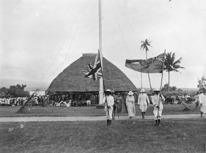 Colonel Robert Ward Tate, New Zealand Resident Commissioner of Western Samoa, and retinue at Mulinu'u